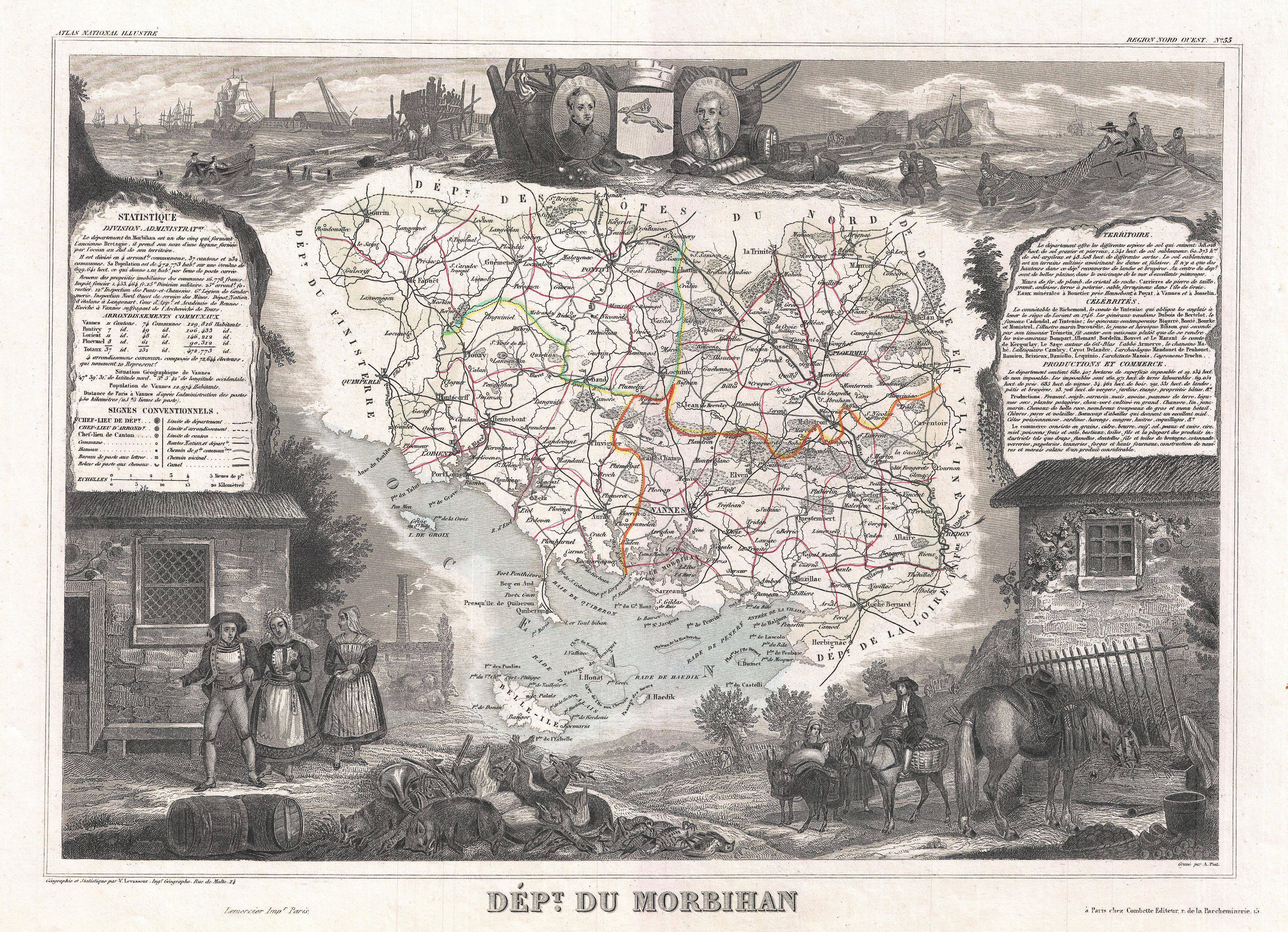 This is a fascinating 1852 map of the French department of Morbihan, France. The map proper is surrounded by elaborate decorative engravings designed to illustrate both the natural beauty and trade richness of the land. There is a short textual history of the regions depicted on both the left and right sides of the map. Published by V. Levasseur in the 1852 edition of his Atlas National de la France Illustree.